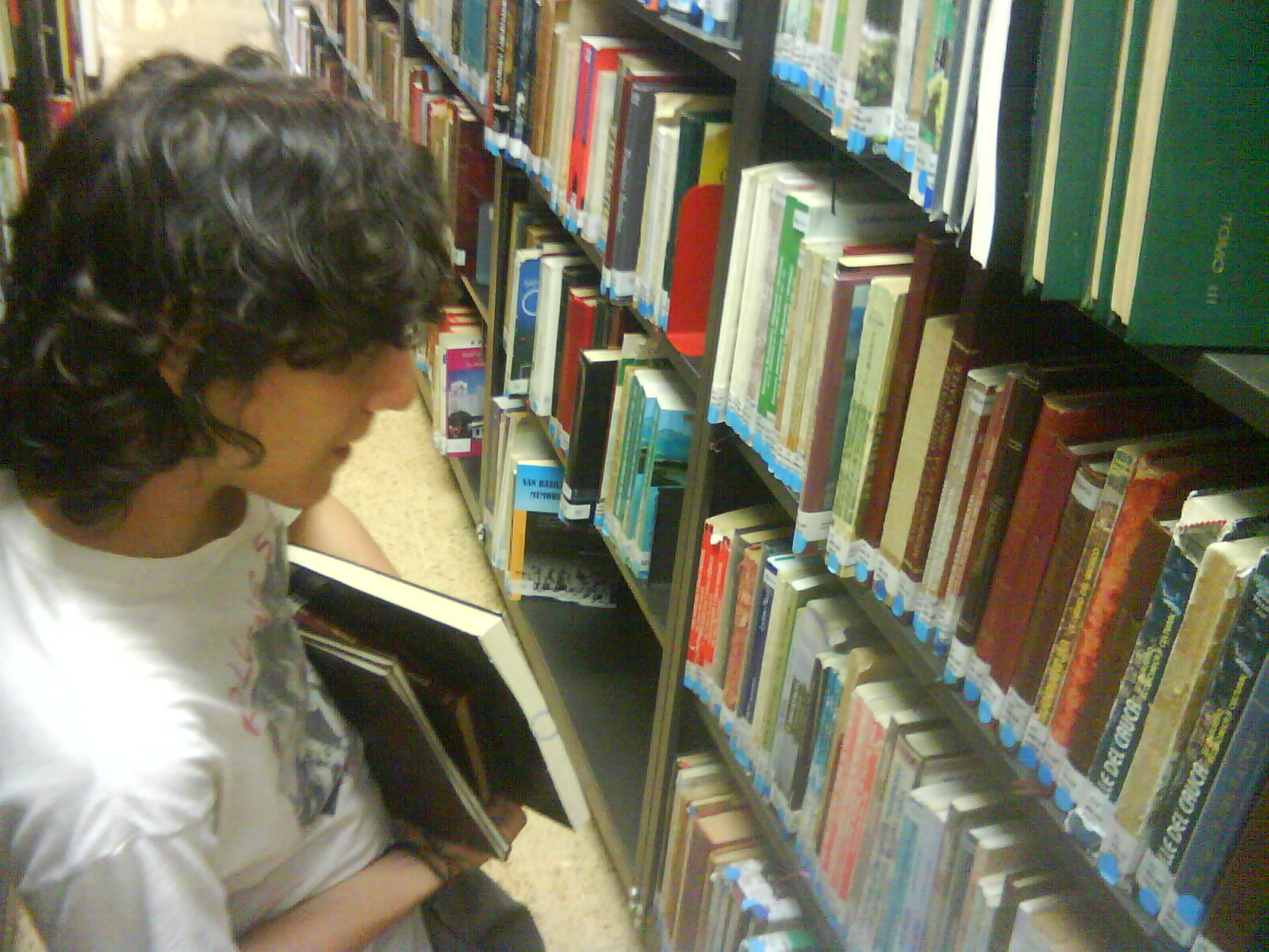 Sahaquiel9102 searching for a book in the Departmental Library of the Valley of Cauca